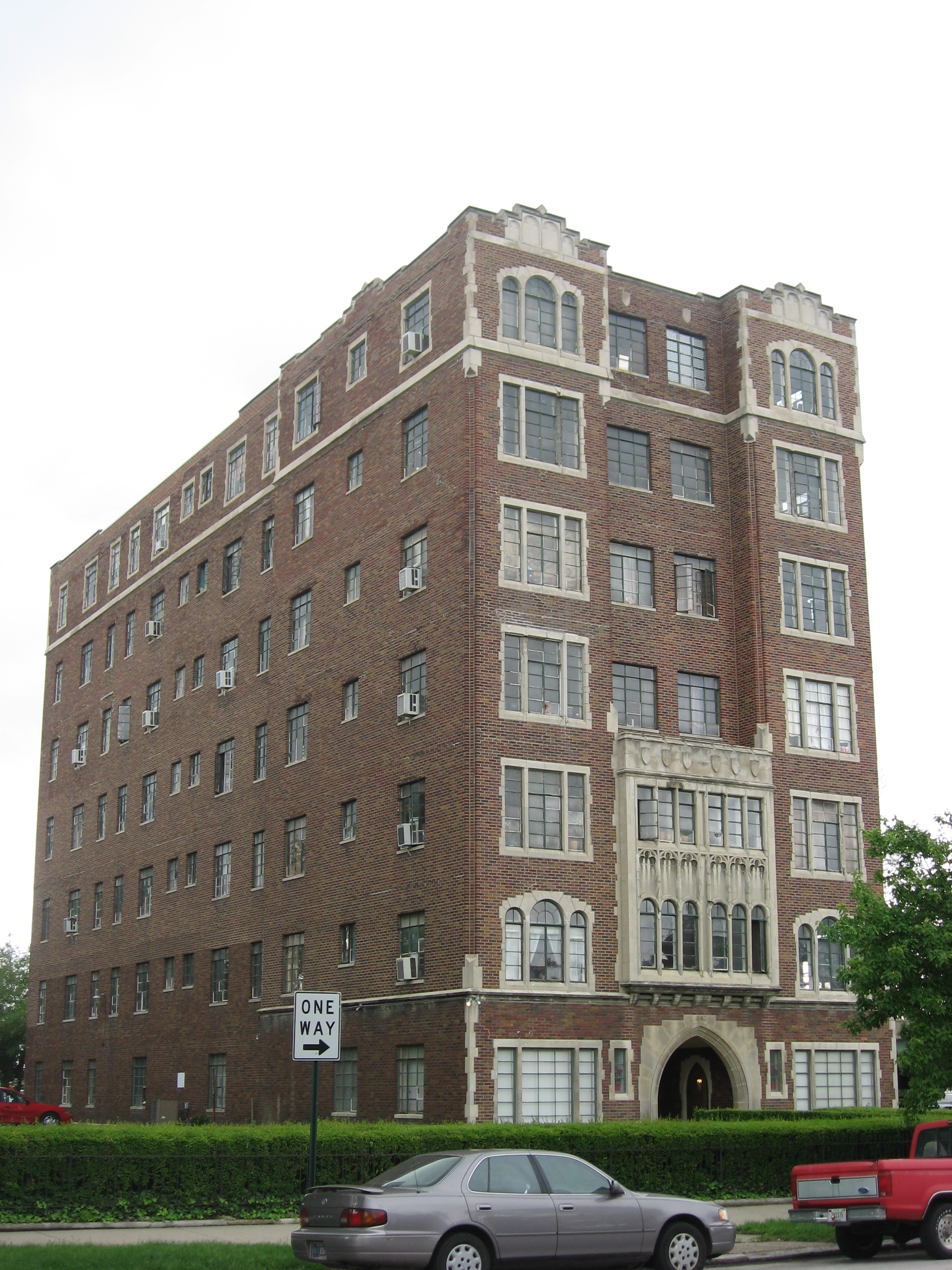 Front of The Wyndham, located at 1040 N. Delaware Street in Indianapolis, Indiana, United States. Built in 1925, it is listed on the National Register of Historic Places as one of the "Apartments and Flats of Downtown Indianapolis Thematic Resources".